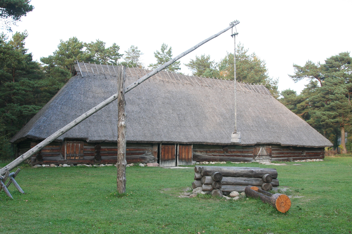 Estonian Open Air Museum, Sassi Jaani farmstead, 18-19 cen.